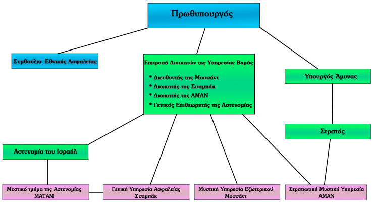 Greek diagram of Israel Security forces structure